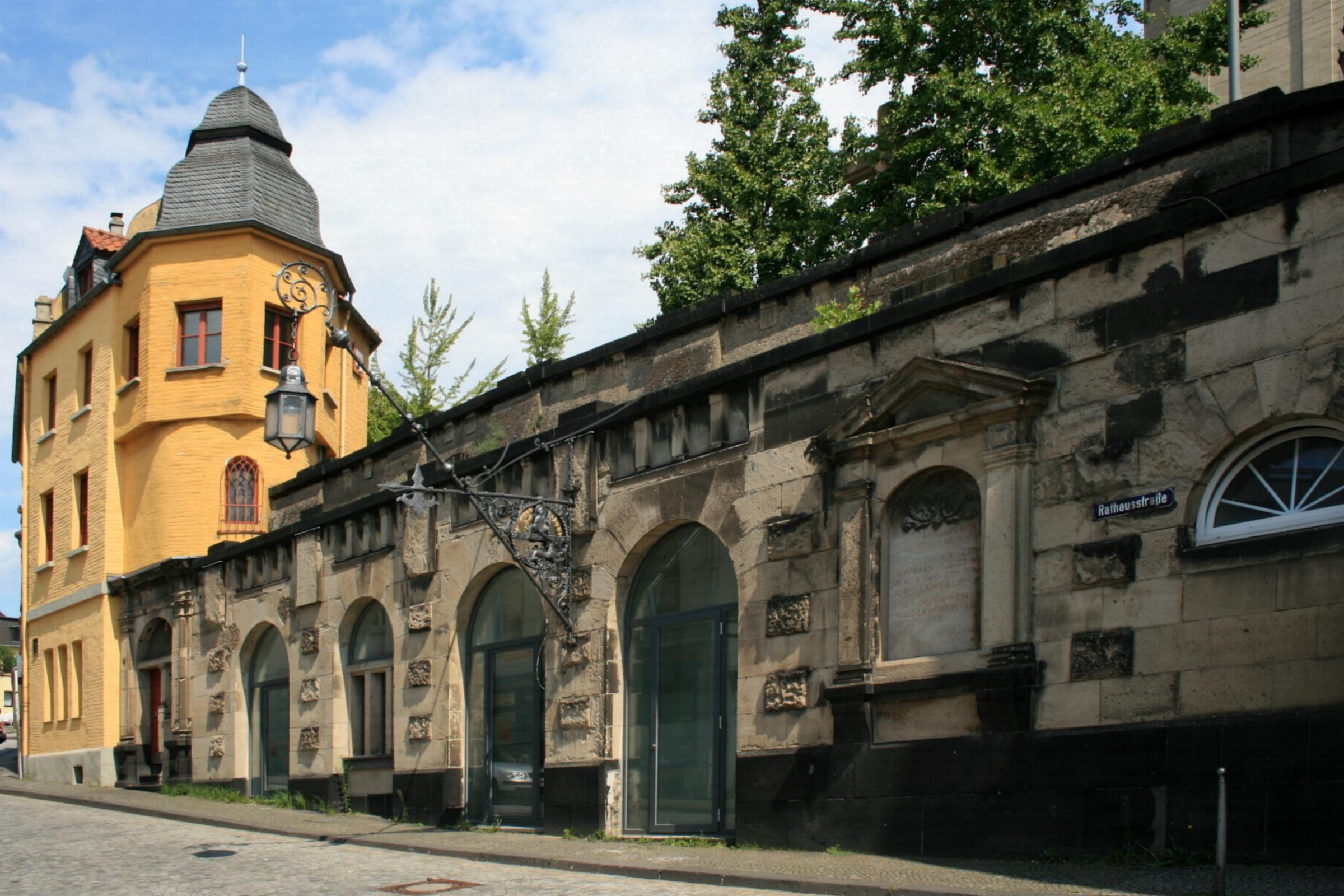 Cultural heritage monument No. R 081 in Mönchengladbach